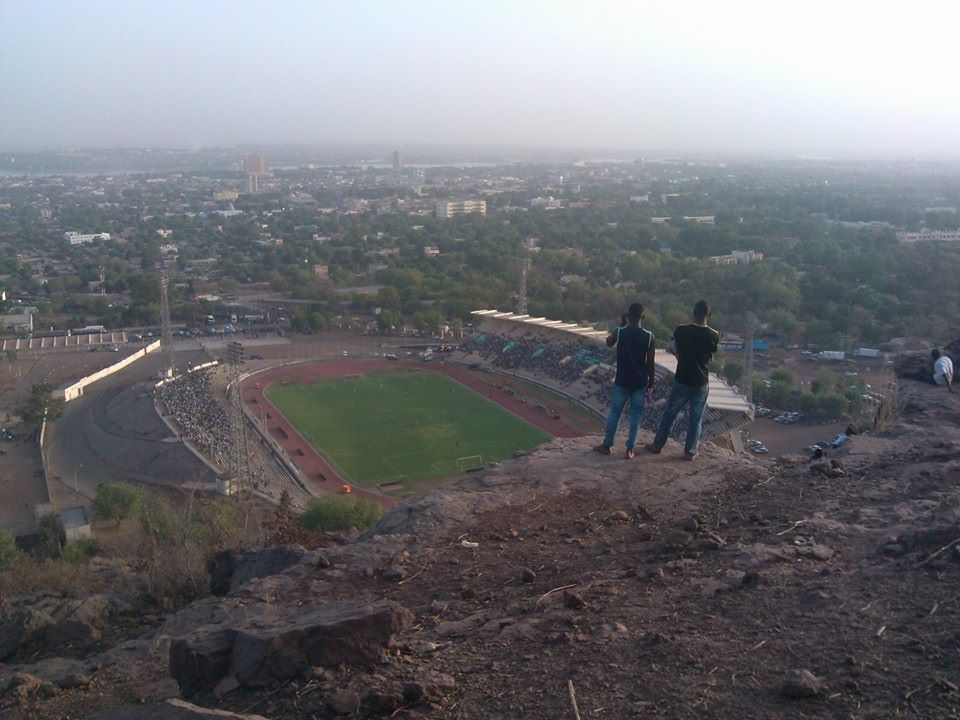 Depicted place: Stade Modibo Kéïta